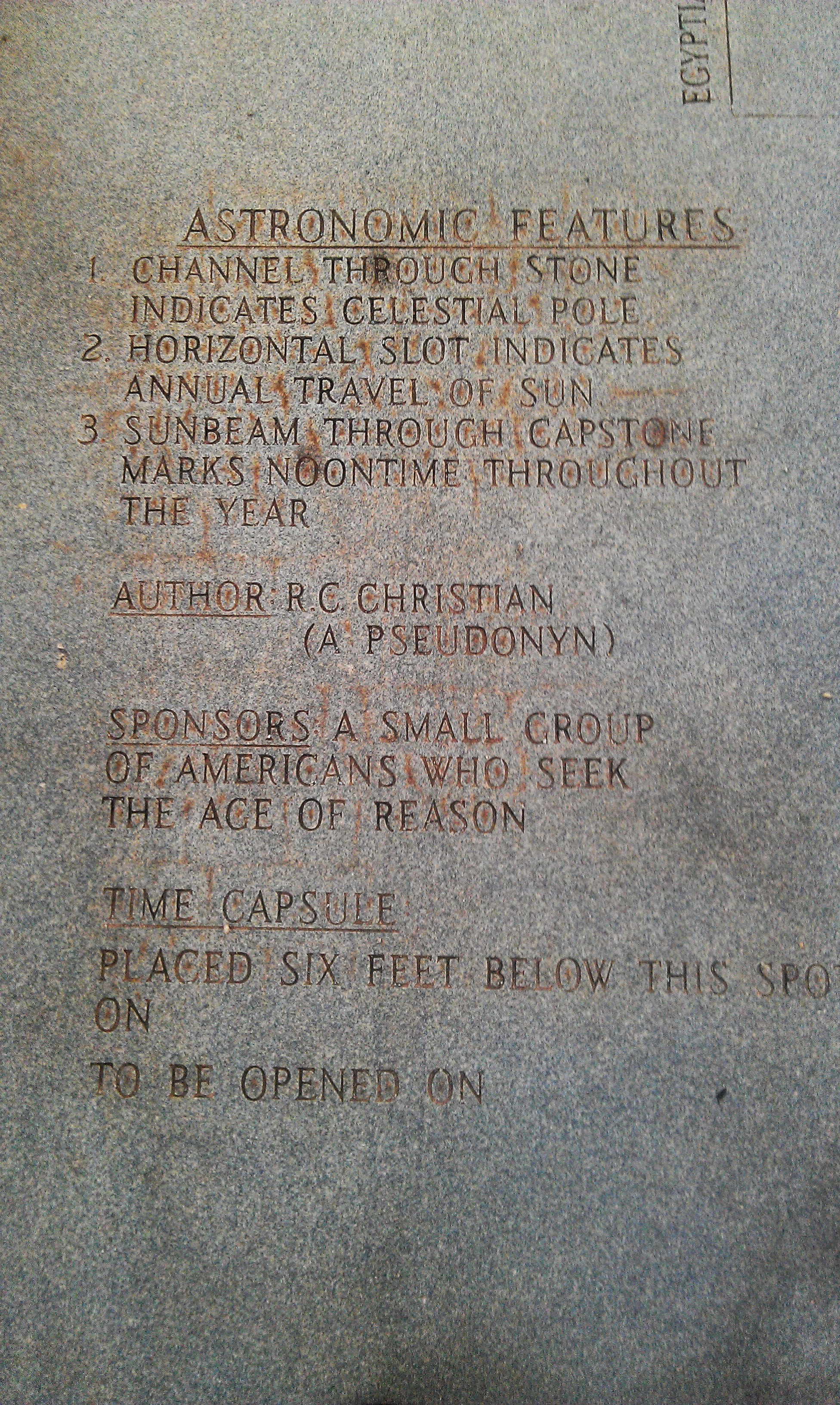 Closeup of the detail stone specifying the astronomic features of the monument.